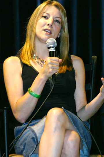 Elizabeth Anne Allen at the 2004 Flashback convention in Chicago.